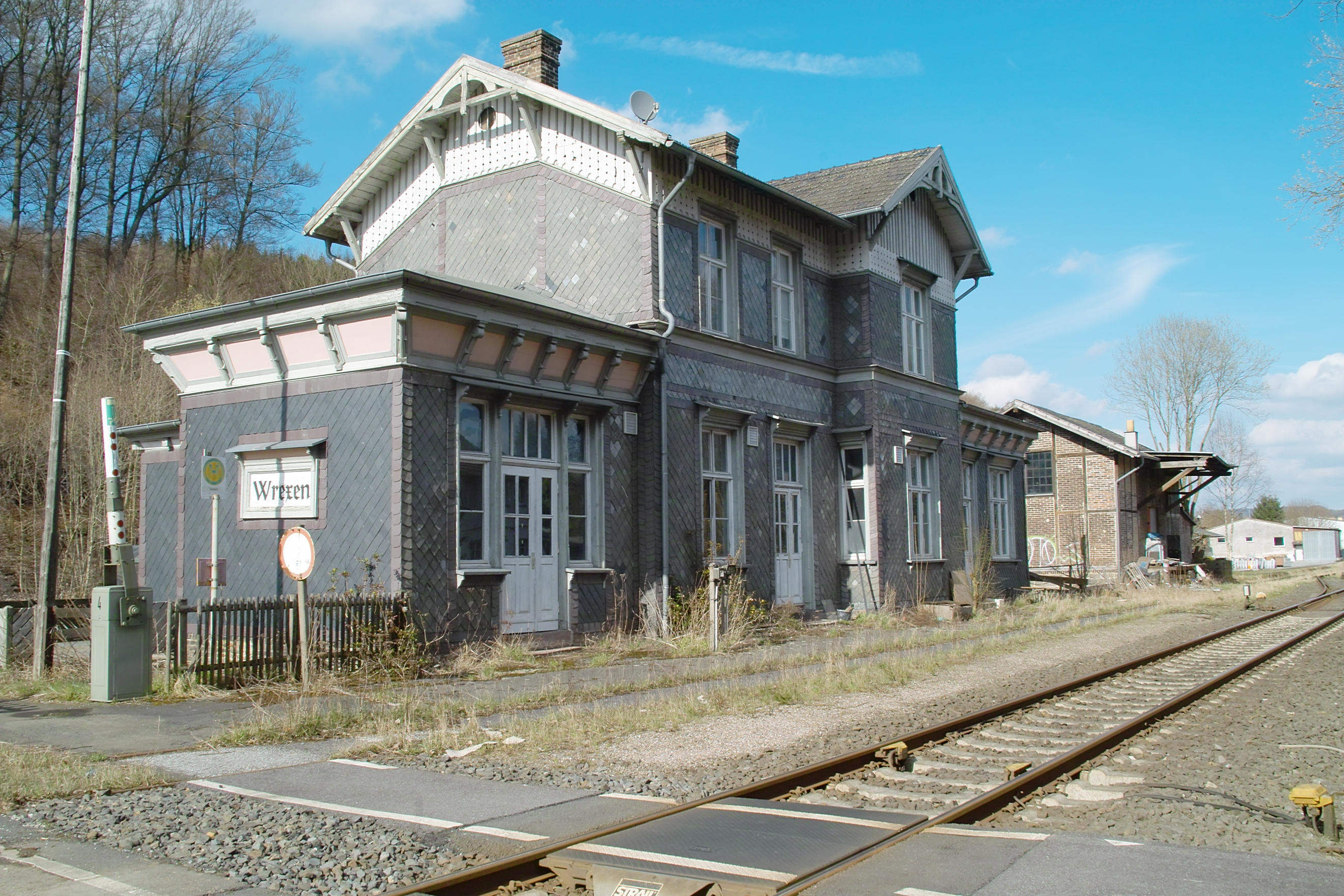 Train station - name-wise, the train station belongs to the city Diemelstadt-Wrexen (which is in Landkreis Waldeck-Frankenberg), gut geographically the station is located in the city of Warburg.